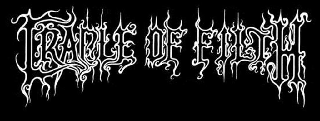 Logo of Cradle of FIlth